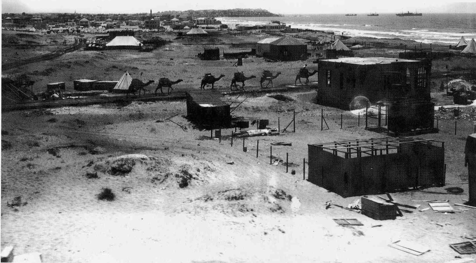 Caravans of camels in Allenby Street (1920's) by Avraham Soskin.